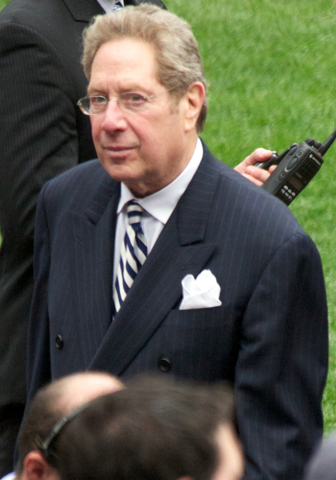 Image courtesy of Chris Ptacek on Flickr. Yankees broadcaster John Sterling in 2010.